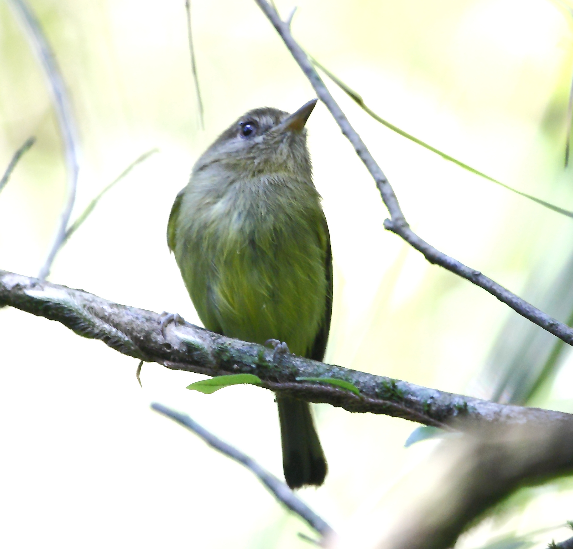 Kaempfer's tody-tyrant at Joinville - SC - Brazil